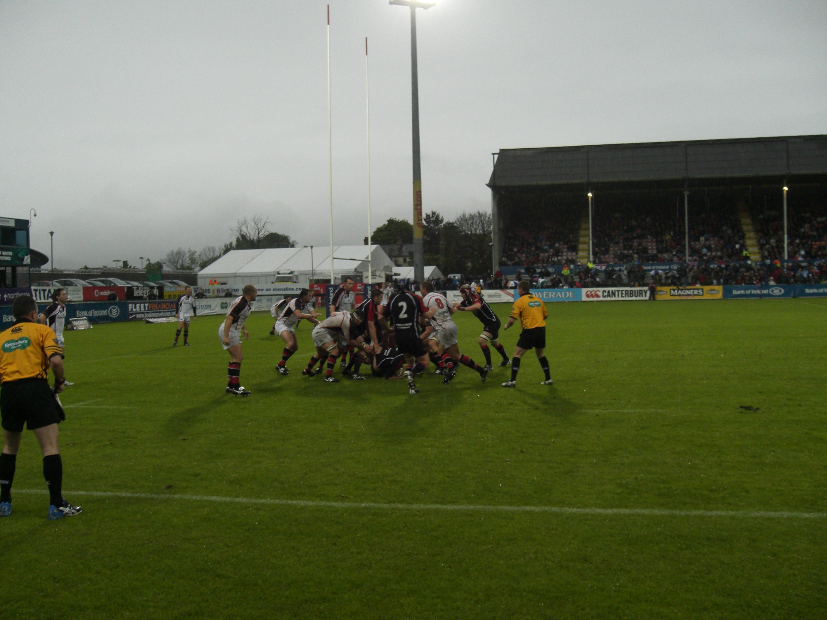 Ulster narrowly defeat Edinburgh Gunners in the Celtic League at Ravenhill (May 2007)